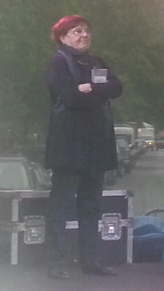 Louise Cotnoir, Jonathan Lamy, Mathieu Simoneau, Élise Turcotte, Louise Cotnoir, Patrick Lafontaine & Hector Ruiz photographed in Montreal, Quebec, Canada at the 2016 Montreal Poetry Festival.